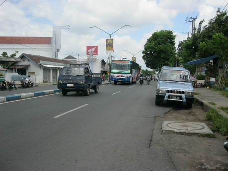 Jalan RA. Kartini (formerly Jalan Jogosari), Pandaan, near Authorized Honda Dealer of WIN Pandaan